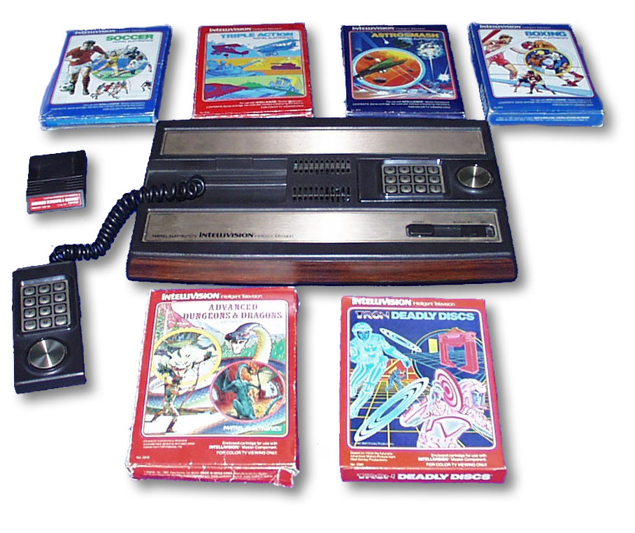 Intellivision game console with some games